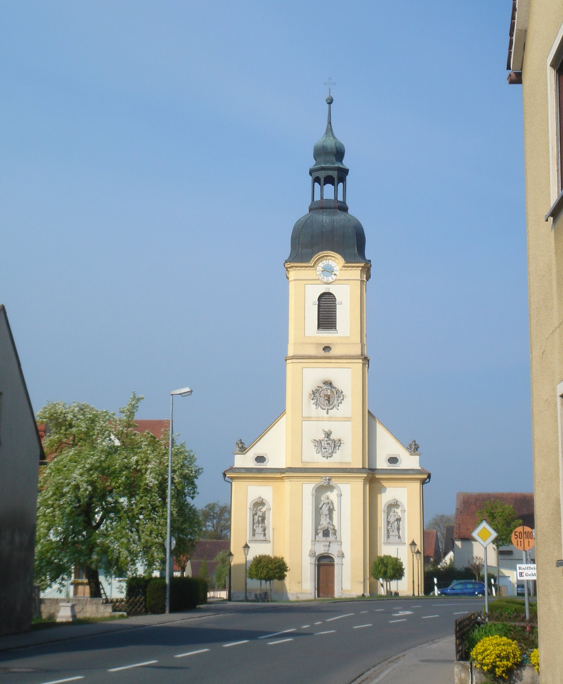 Church of St. Augustine in Stopfenheim, Bayern.